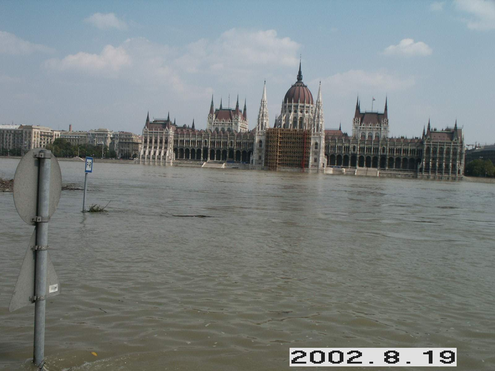 Parlament, Budapest, Hungary. Flood on tn the Danube 2002